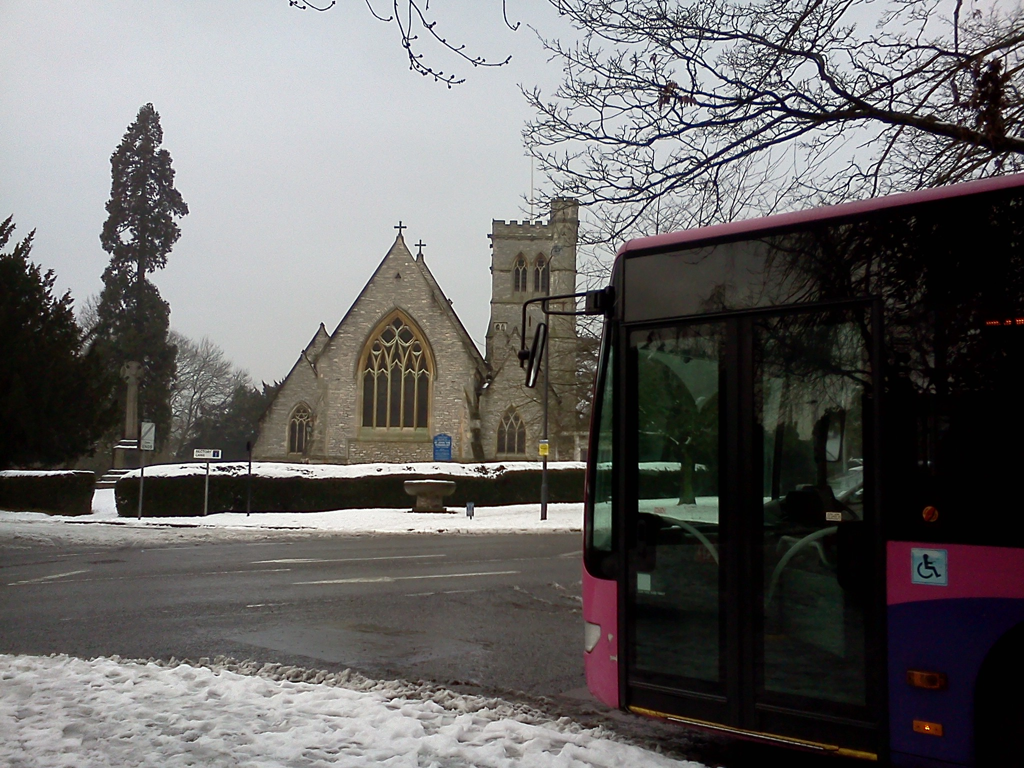 Stanmore Church Bus Stand. UnoBus route 615